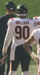 Jonathan Bullard in 2018